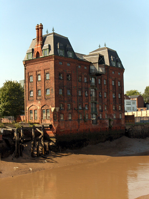 Warehouse Conversion. This rather ornate warehouse on the corner of George Street and Charlotte Street has been converted into flats.